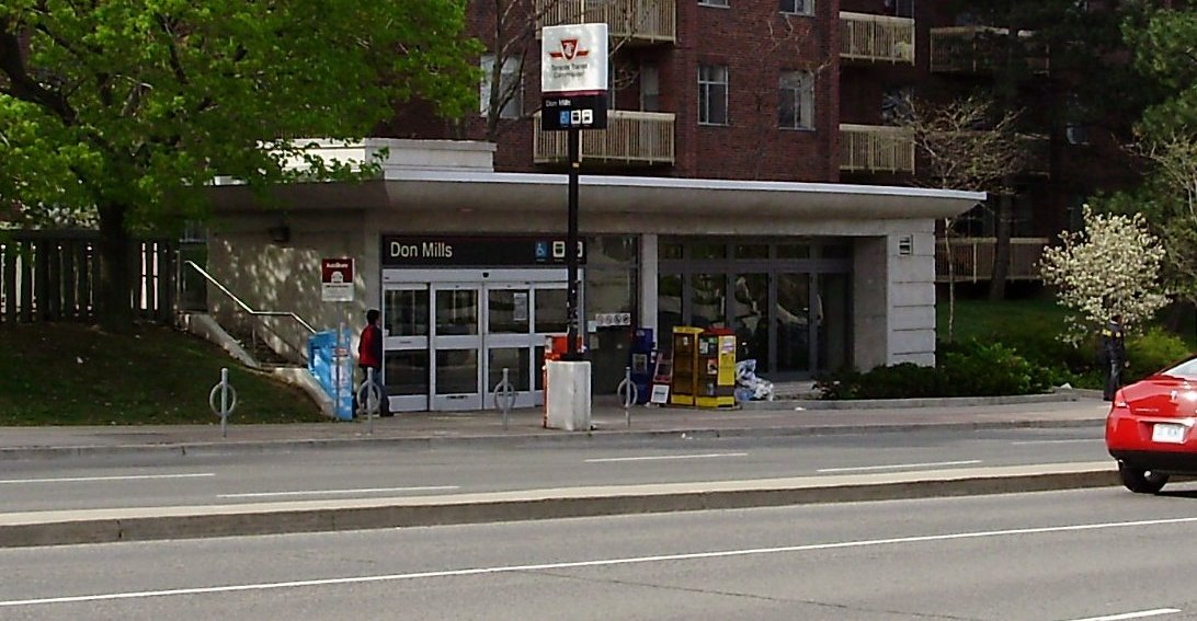 An entrance to the Toronto Transit Commission's Don Mills subway station, photographed from the north side of Sheppard Avenue East.